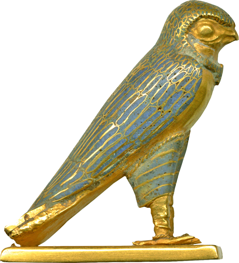 This masterpiece represents a solar god in falcon form.